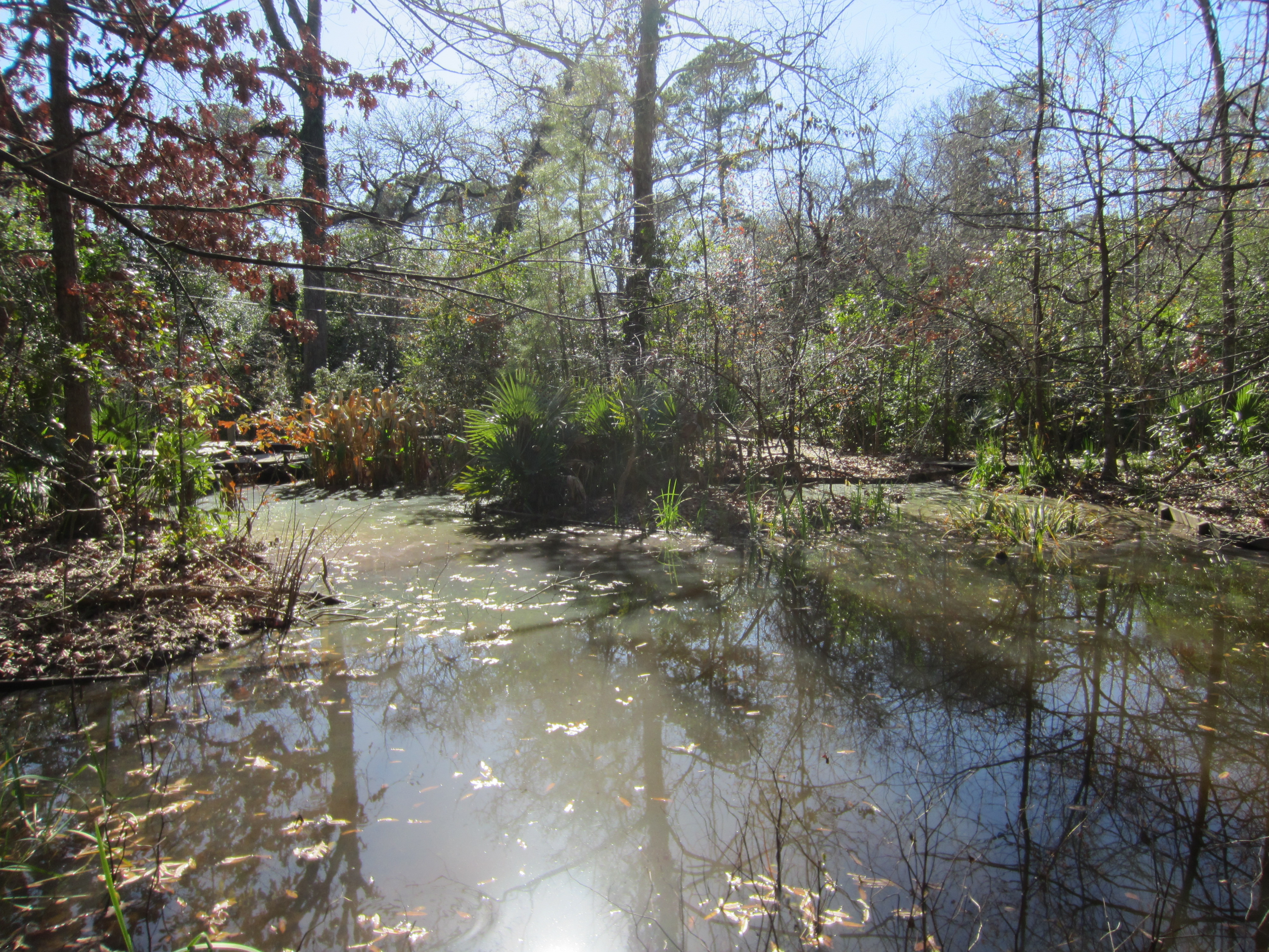 File:Edith L. Moore Nature Sanctuary, Houston, Texas (2014)